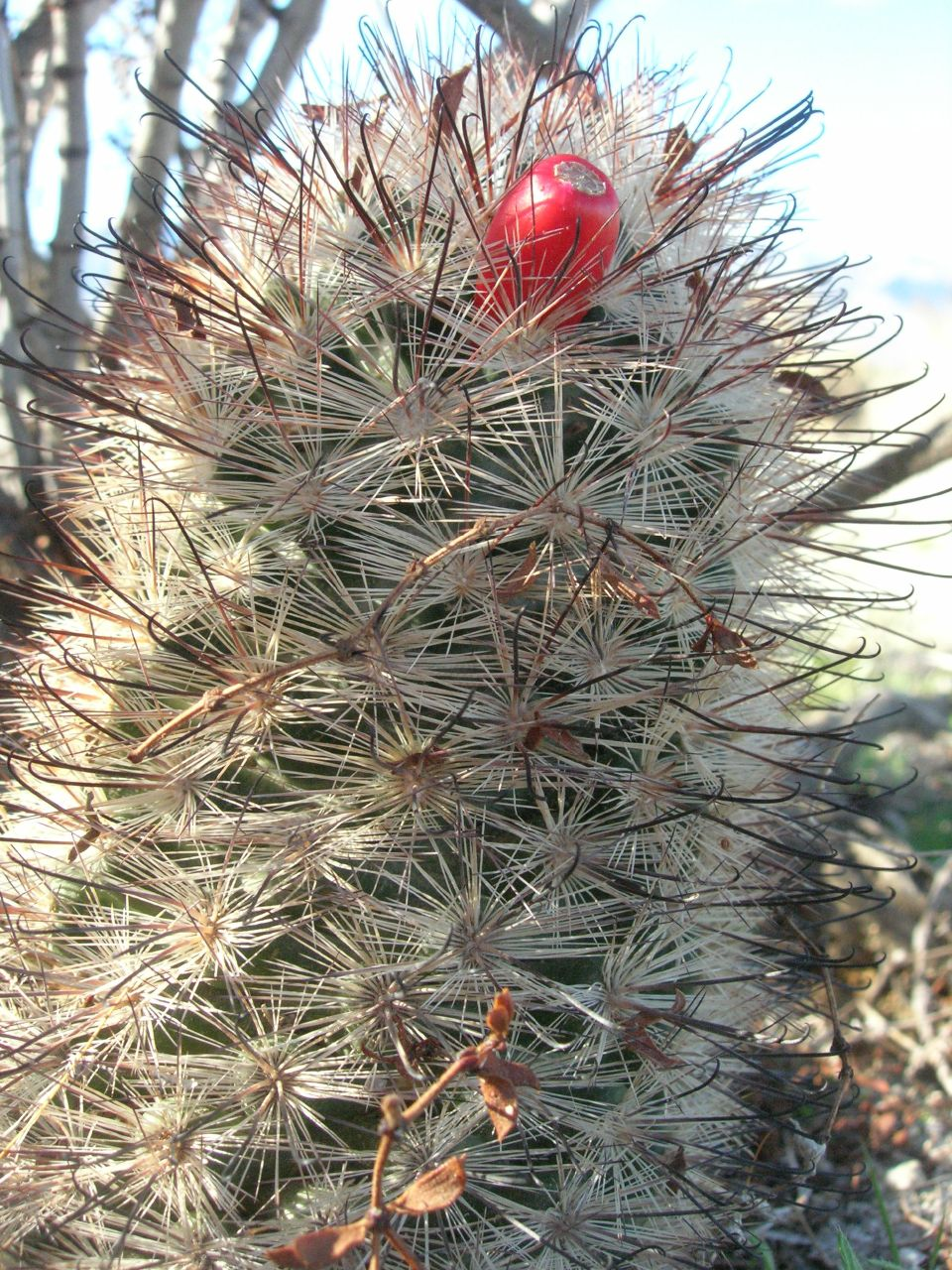 Mammillaria tetrancistra, Coachella Valley, Riverside County, California